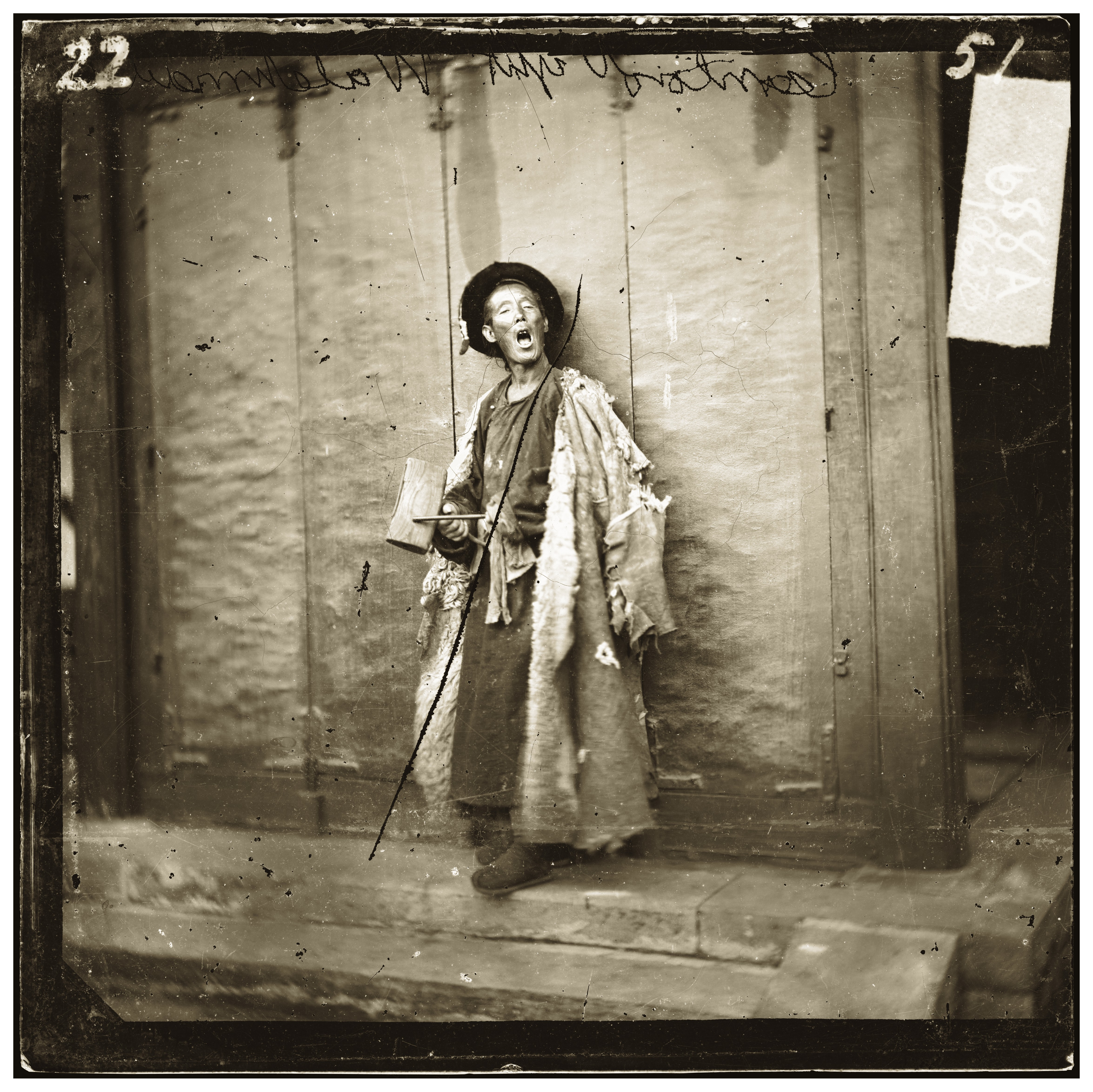 Canton night watchman. Peking city guard. Iconographic Collections Keywords: J. Thomson